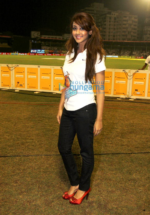 Aindrita Ray at the Chennai Rhinos v/s Karnataka Bulldozers match at CCL 3